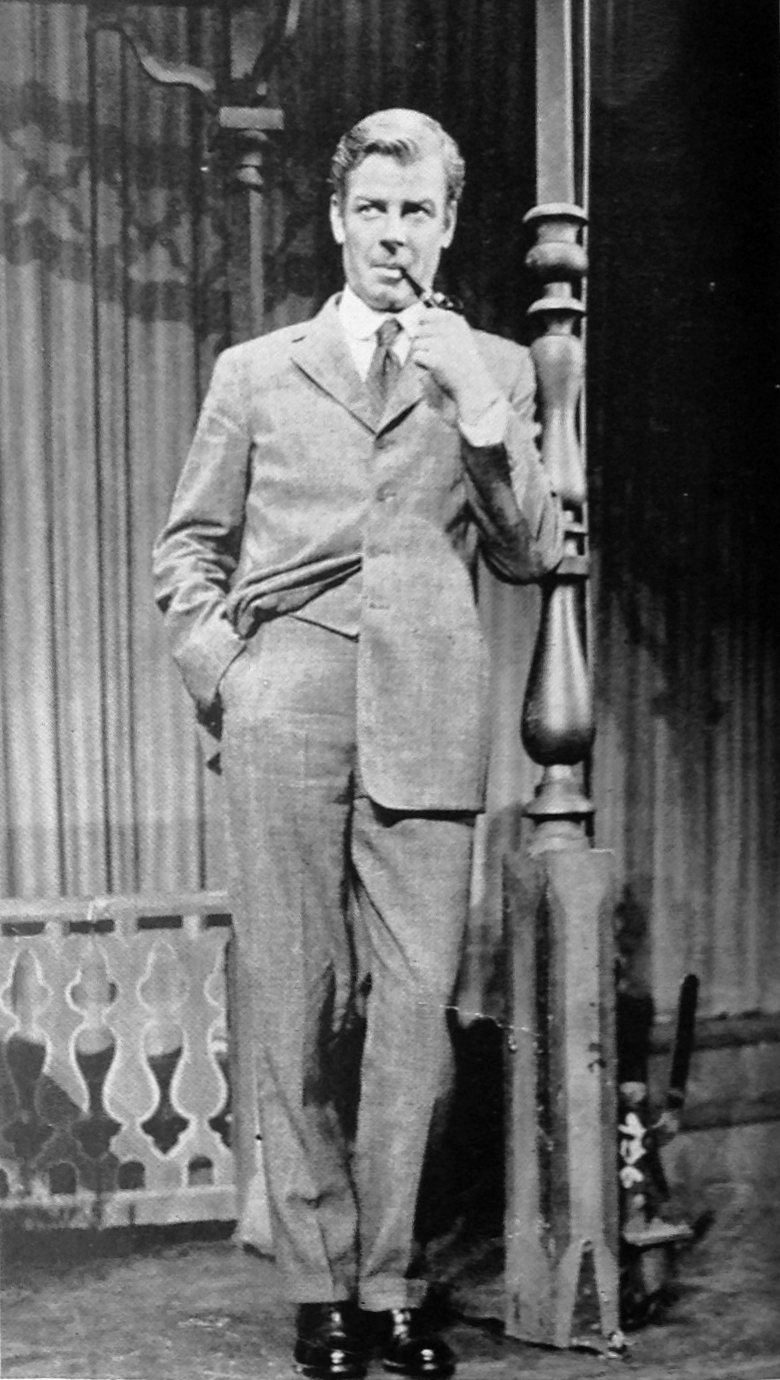 William Ching as Dr. Taylor (the father) in Rodgers & Hammerstein's Allegro